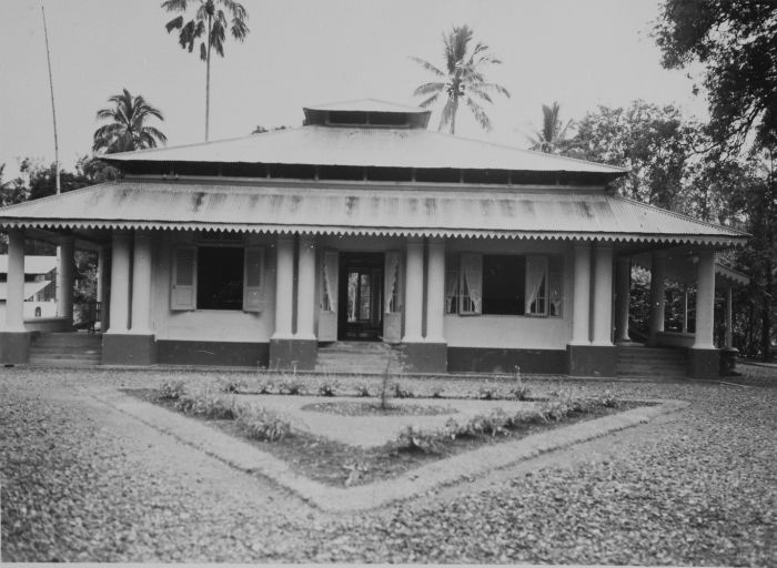 Photo. Residence in Fort van der Capellen